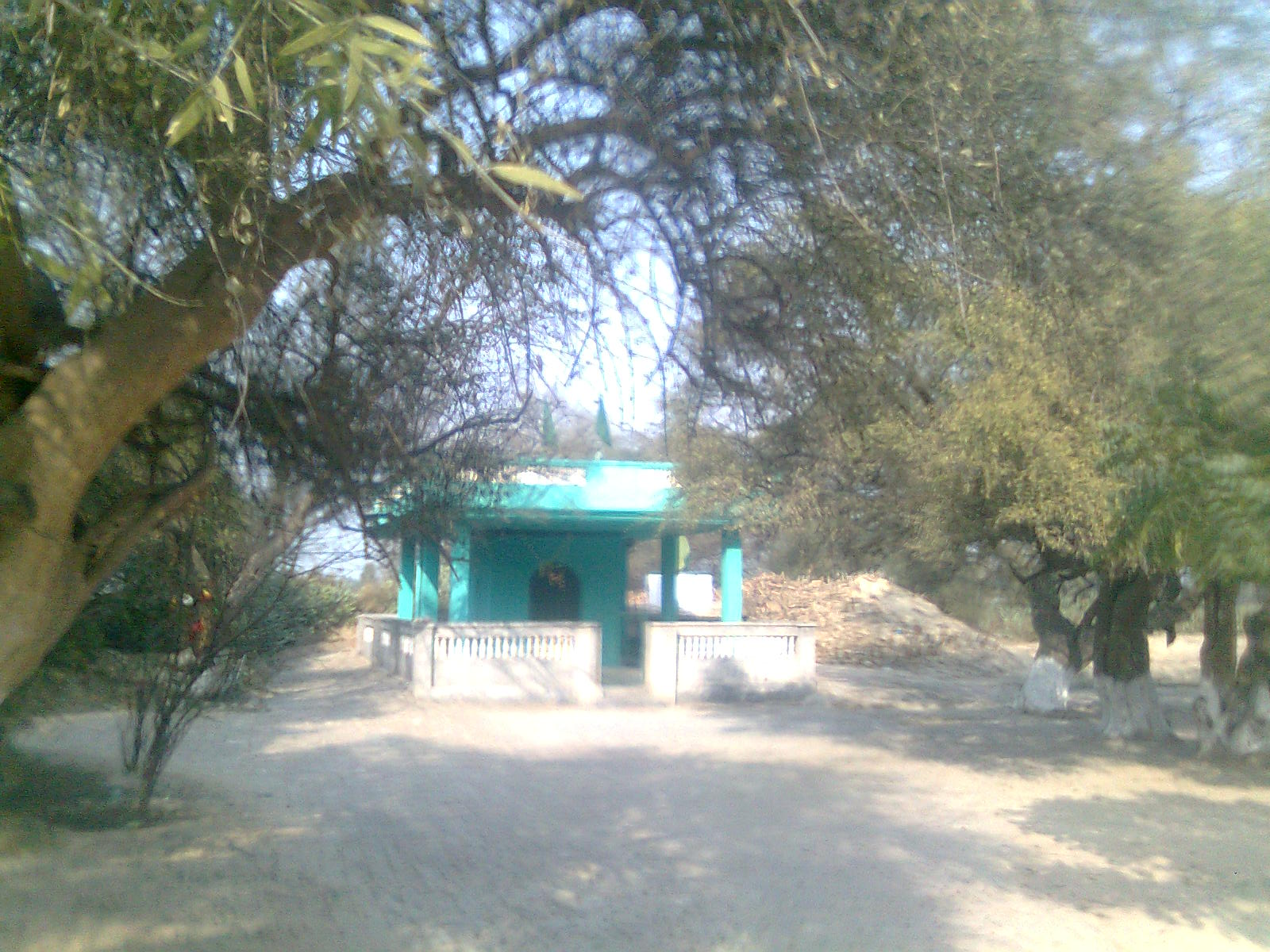 Shrine of Peer Sayyad Ibrahim who converted to Sikhism when Guru Gobind Singh came to Chhattiana in 1705, after the Battle of Muktsar. It's located near Gurdwara Guptsar Sahib, the place where the tenth master and Sikh soldiers stayed.